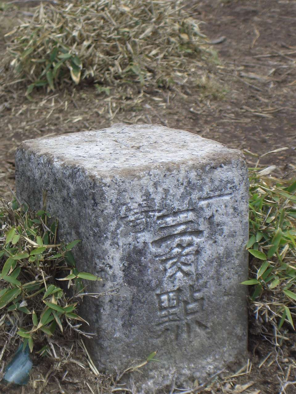 1st class of triangulation point in Japan.